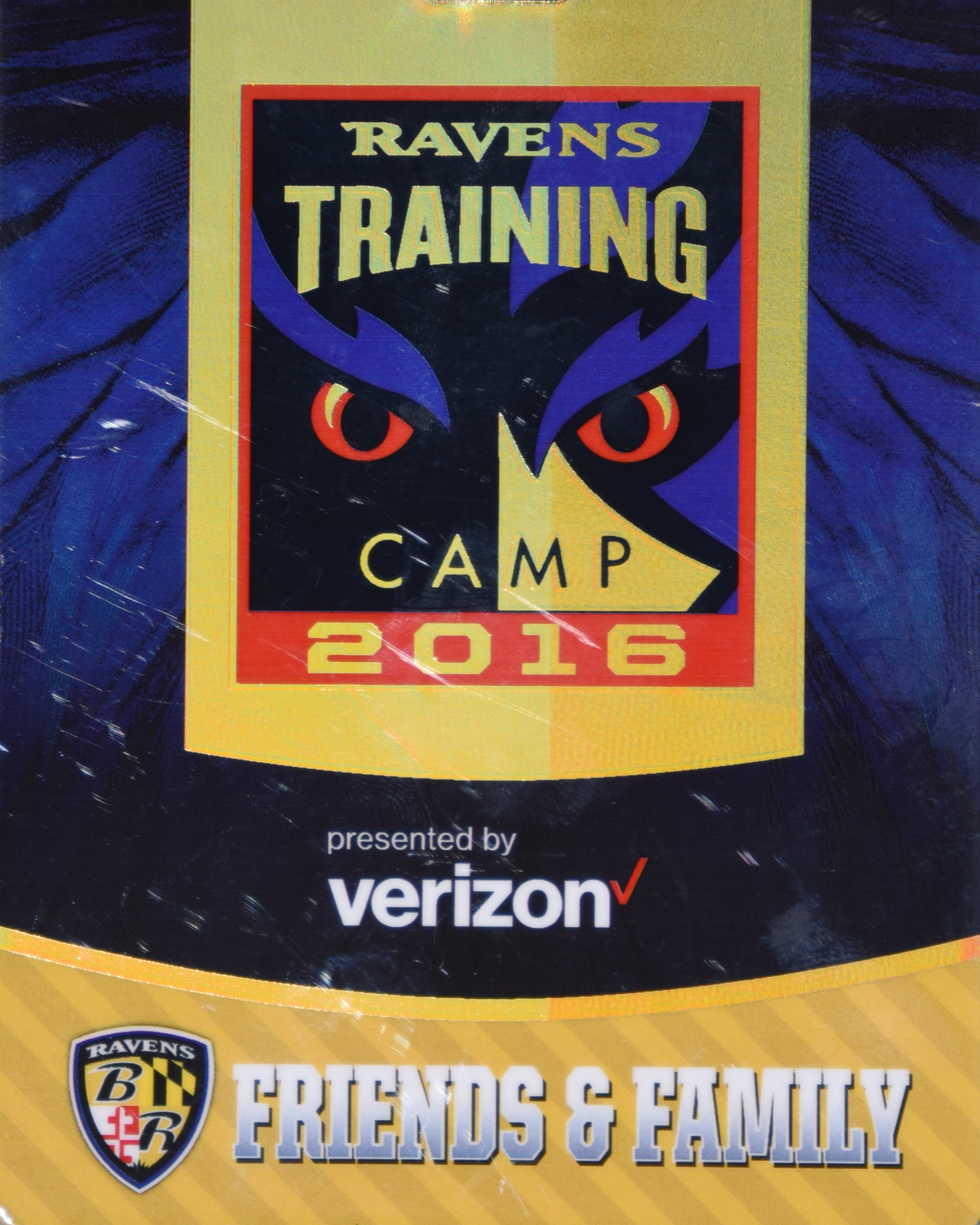 Governor and Lt. Governor Visit Ravens Training Camp by Joe Andrucyk at 1 Winning Dr. Owings Mills MD 21117